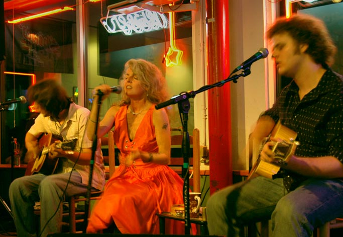 Toni Price at the Waterloo Ice House in Austin, Texas.